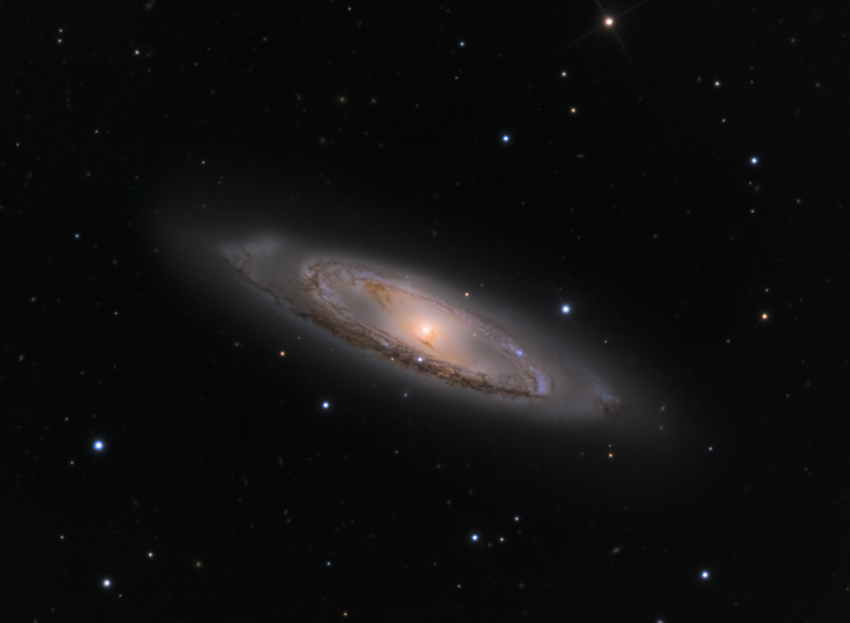 Deep exposures of Galaxies using the 0.8m Schulman Telescope at the Mount Lemmon SkyCenter Credit Line & Copyright Adam Block/Mount Lemmon SkyCenter/University of Arizona